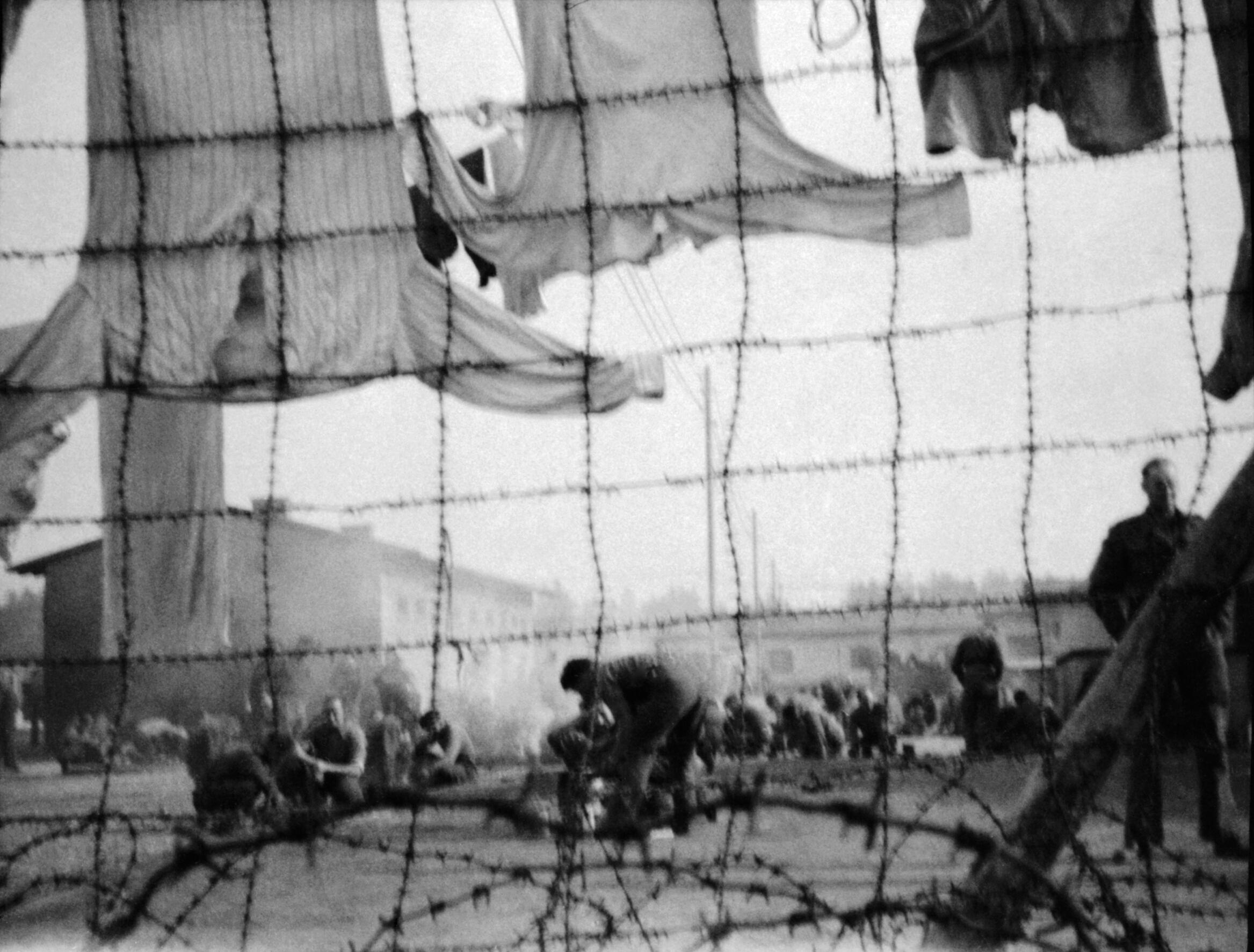 The British Army in North-west Europe 1944-45 A photograph taken covertly at Stalag VIIA at Mooseburg in October 1943, showing British POWs brewing tea in the compound.